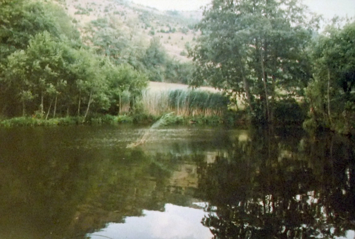 Semeteš lake on Kopaonik,with small floating island.